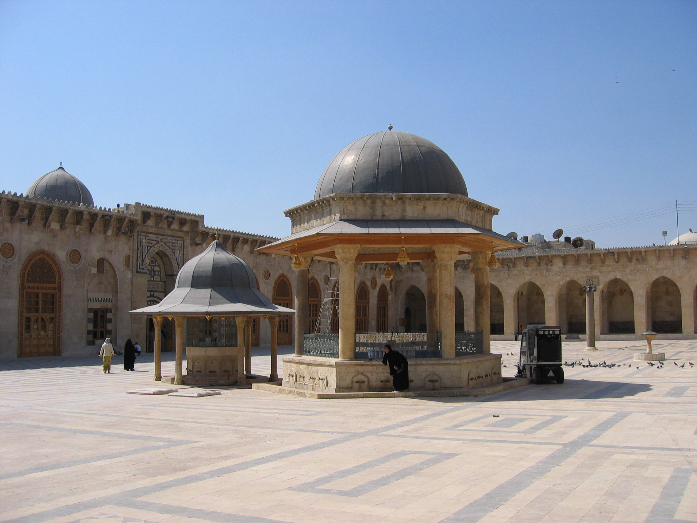 The Omayad Mosque courtyard, with Şadirvans in pavilions, in Aleppo, Syria.